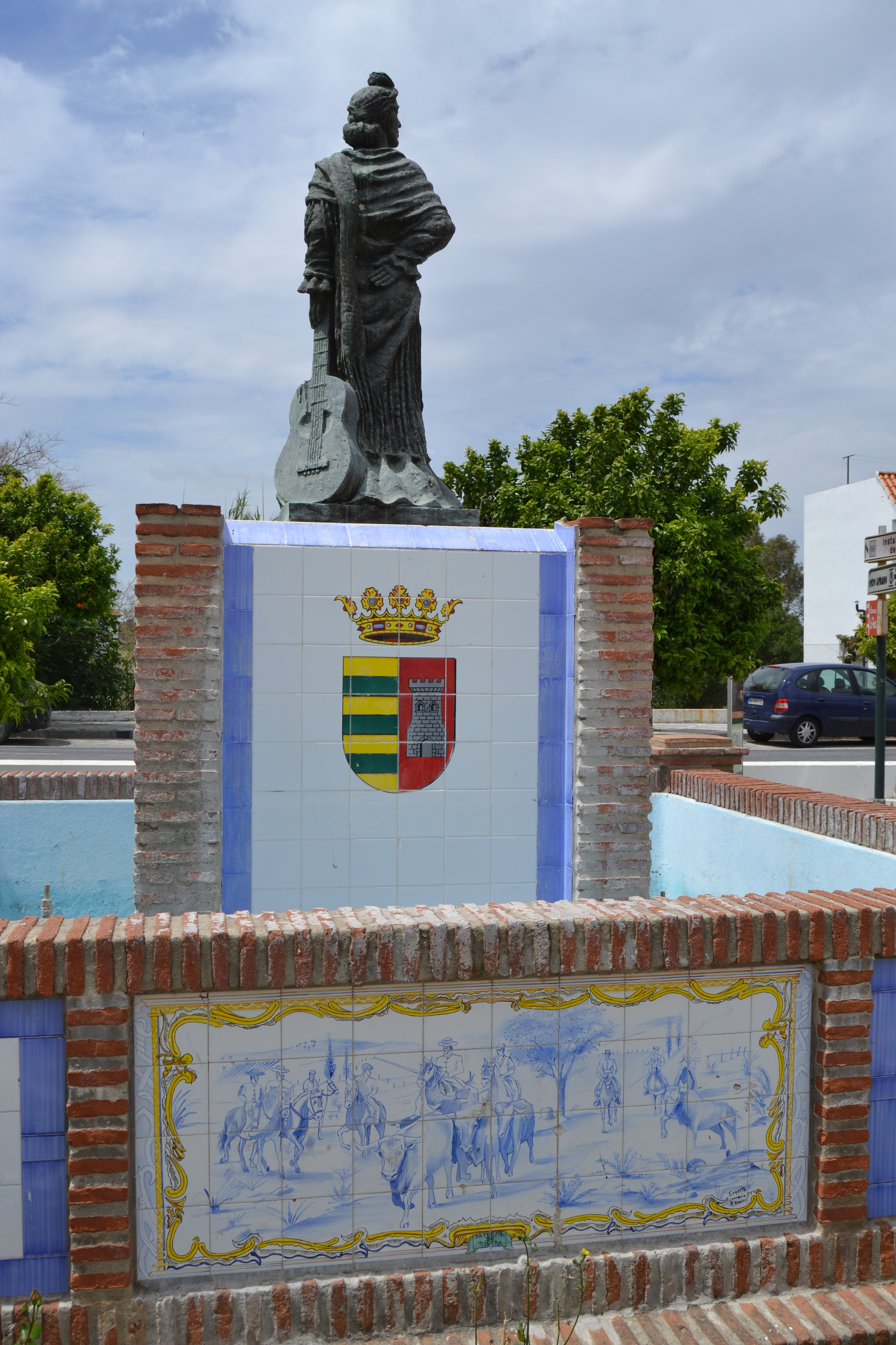 Monuments in Paterna de Rivera, Andalusia, Spain